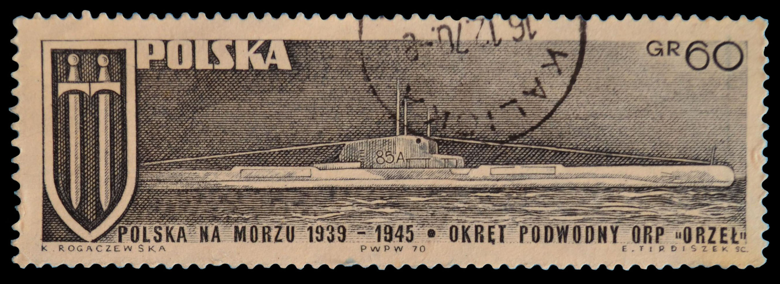 Post mark released by Polish Post in 1970, one of "Poland at sea 1939-1945" series, depicting polish submarine ORP „Orzeł”.